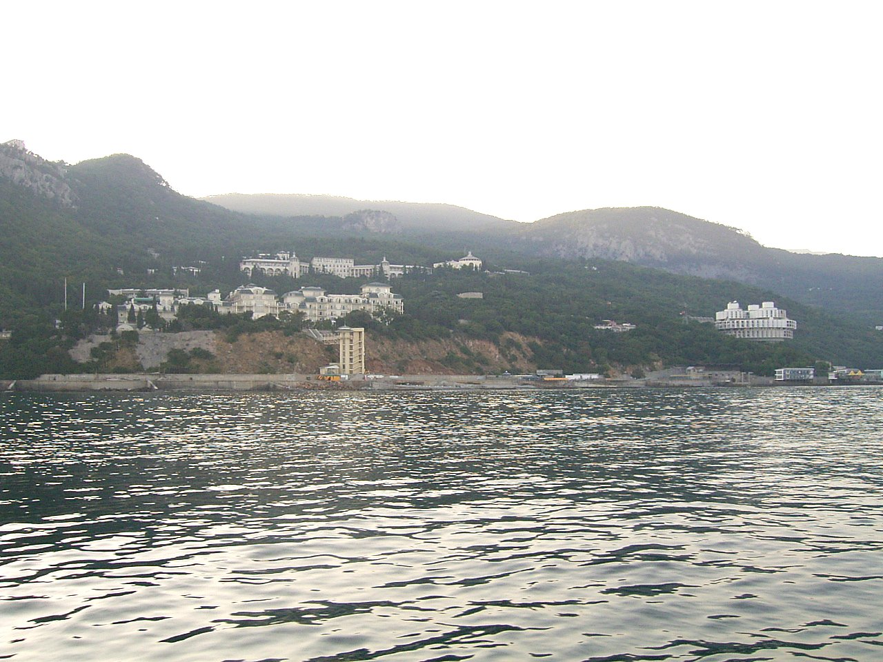 Description: Kurpaty, Yalta Author: Alexander Noskin Date: 8-12-2005